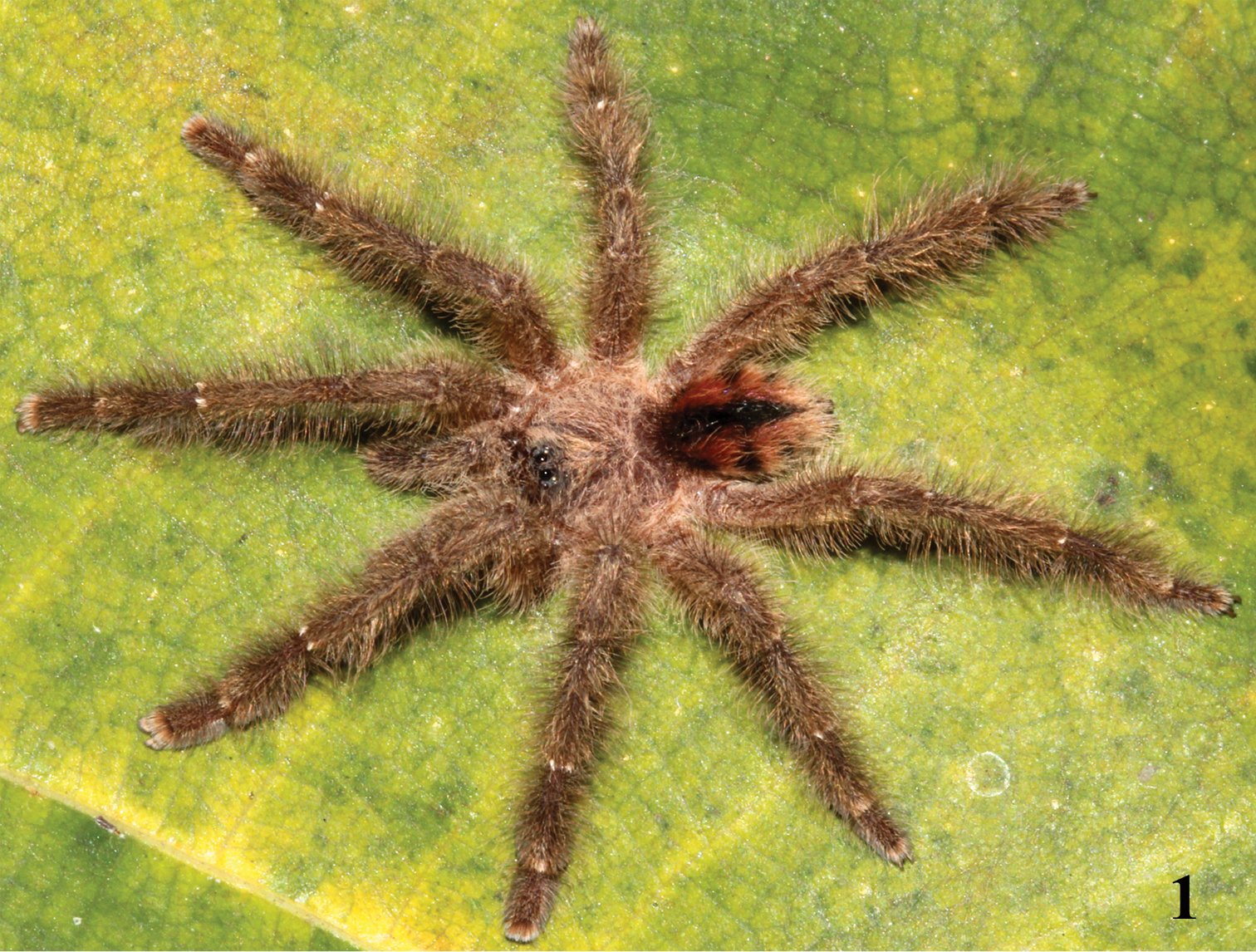 Typhochlaena curumim Bertani, 2012 habitus, male from southern Rio Grande do Norte, Brazil.